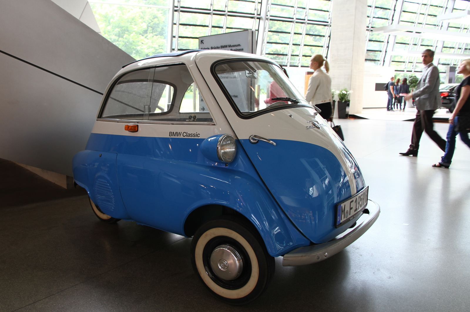 BMW Isetta with a front opening door